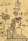 Ixtlilxochitl I, ruler of Texcoco